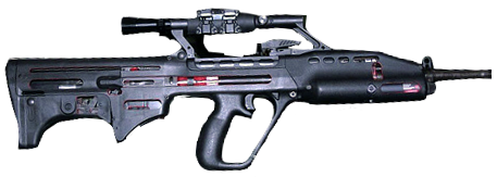 Cropped image of SAR 21.